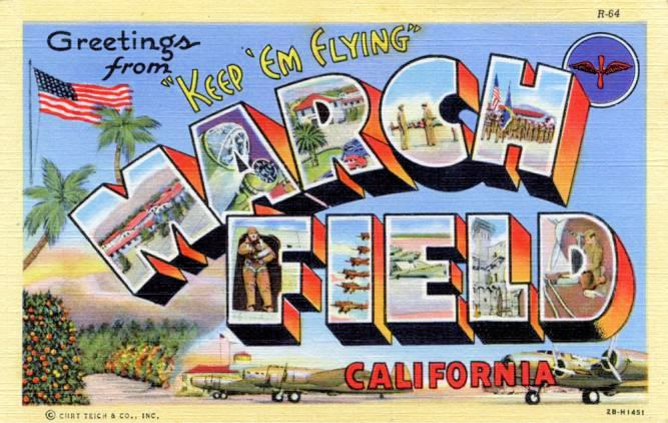 Army Air Forces - Postcard - March Field California